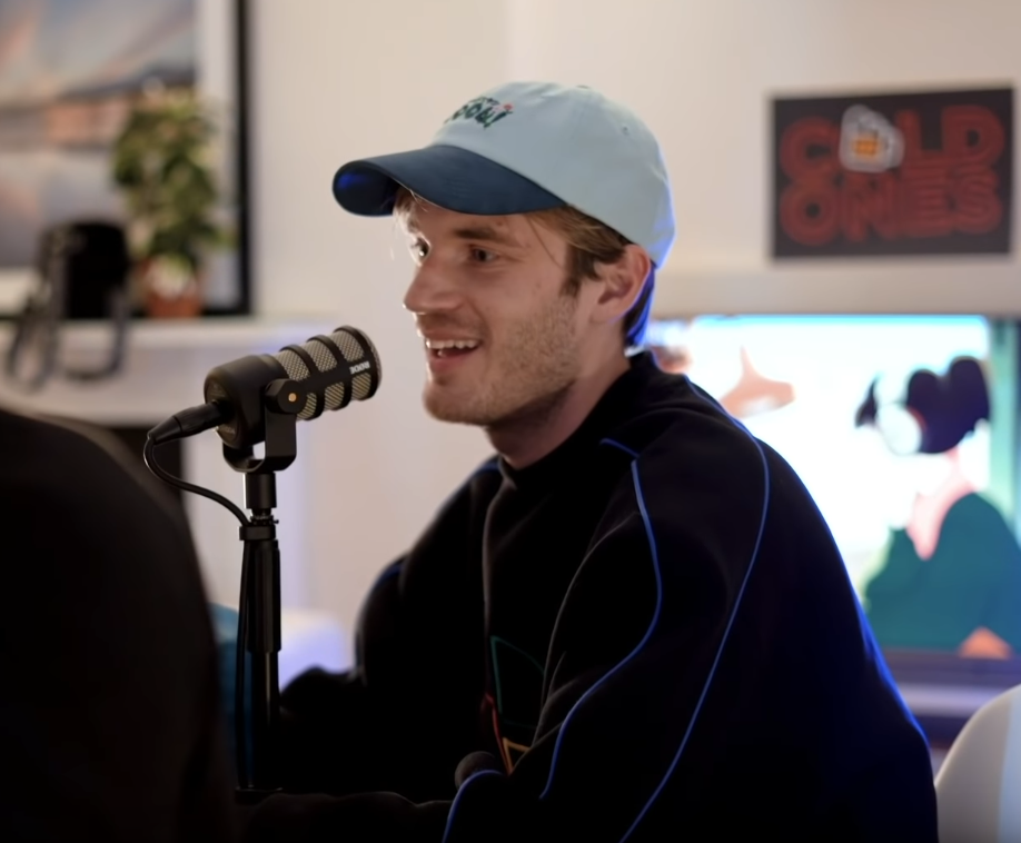 PewDiePie seen on the Cold Ones podcast (2019).